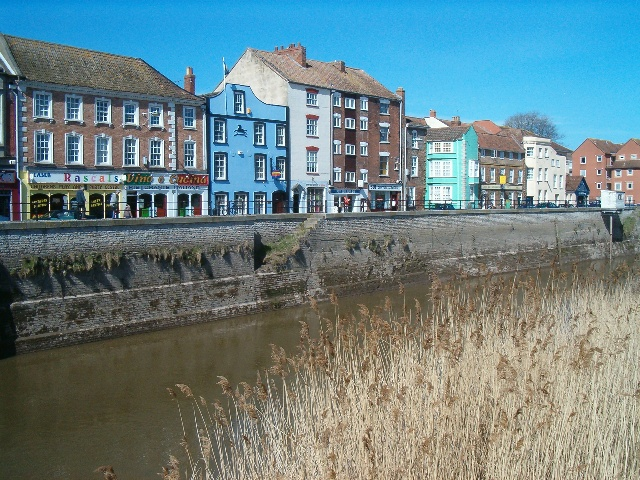 Picture of West Quay and the River Parrett, Bridgwater, Somerset, England, taken in 2006